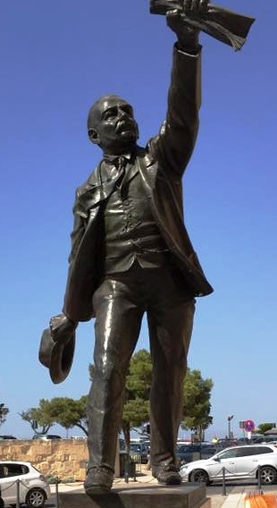 Statue of Manwel Dimech in Malta